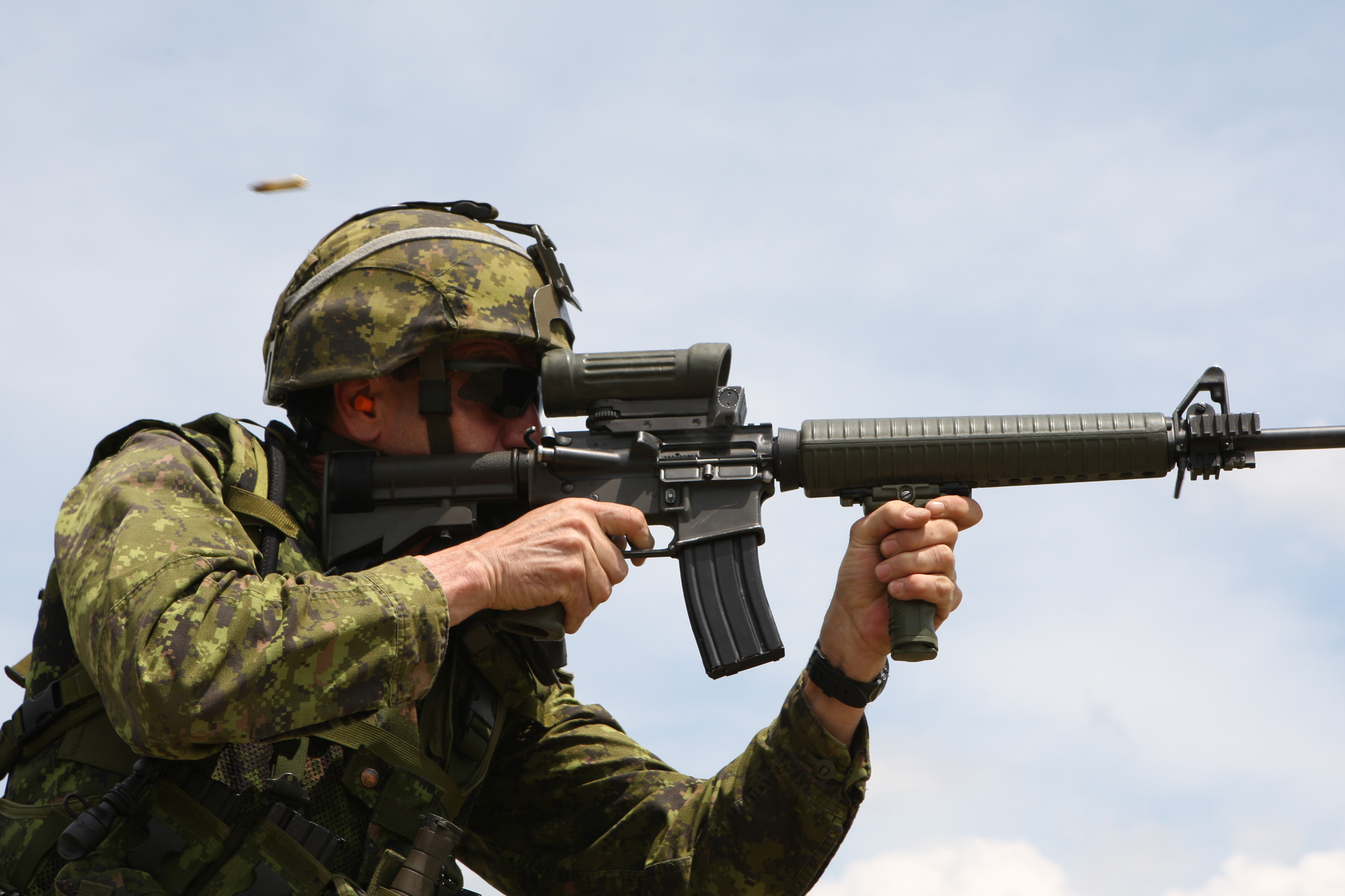 Canadian soldiers participate in rifle drills during Partnership of the Americas 2009 at Camp Blanding, Fla., April 16, 2009. Partnership of the Americas 2009, a multiservice, multinational exercise, is the oldest combined exercise within the U.S. Department of Defense. Marines with the 24th Marine Regiment conduct training exercises with marines from Brazil, Chile, Colombia, Mexico, Peru and Uruguay and soldiers from Canada as a part of Special Purpose Marine Air Ground Task Force 24. More than 25 ships, 50 rotary and fixed-wing aircraft, 650 Marines, 6,500 Sailors and four submarines will participate in the exercise.